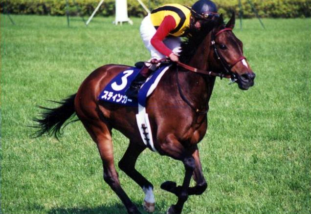 Stinger (racehorse, Tokyo Racecourse)